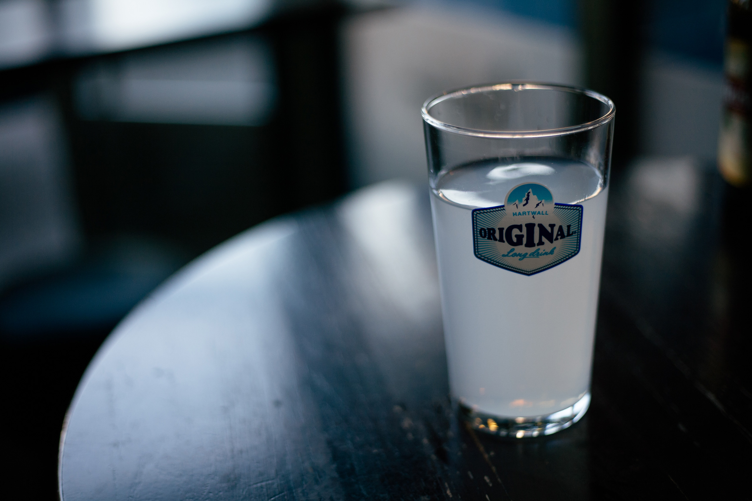 Lonkero Lonkero, a Finnish longdrink consisting of gin and grapefruit lemonade.